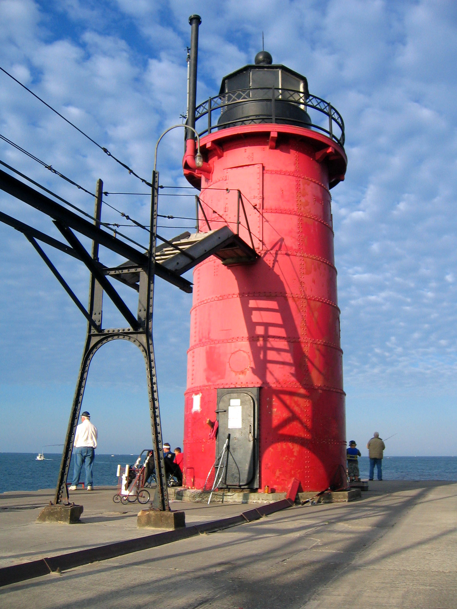 South Haven Light is a lighthouse which was built in 1872 and is located in Michigan. It is still in operation today. Author: D. R. J. Stiennon